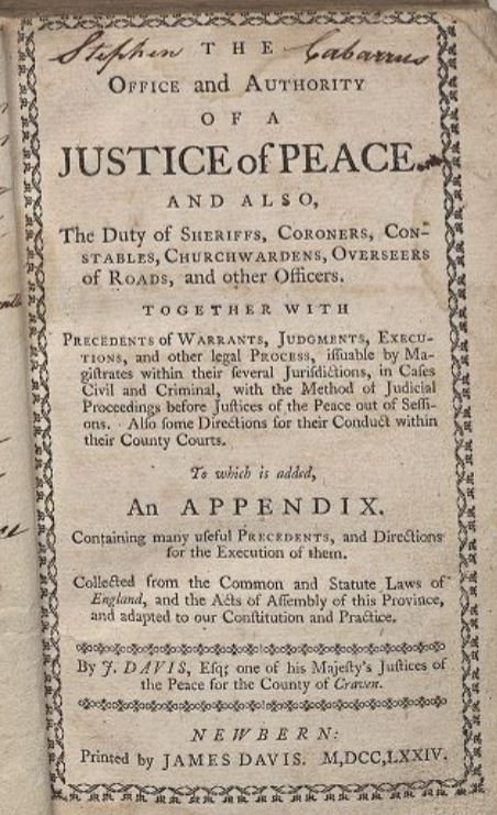 Title page from a book written by James Davis in North Carolina in 1774